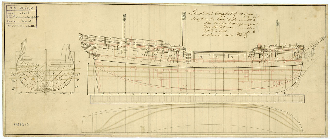 Carysfort (1766), Levant (1758) Scale 1:96. Plan showing the body plan, sheer lines with inboard detail, longitudinal half breadth for Levant (1758) and Carysfort (1766), both 28-gun, Sixth Rate Frigates. Date unknown as Carysfort not launched until 1766. Poss represents a time when both ships were in a Royal Dockyard at the same time? NMM, Progress Book, volume 2, folio 595 states that 'Carysfort' (1766) was launched at Sheerness Dockyard on 23 August 1766 and docked on 30 March 1767. She was undocked on 9 June and sailed on 11 August 1767 having been fitted. NMM, Progress Book, volume 2, folio 344 states that 'Levant' (1758) was docked at Sheerness Dockyard on 5 September 1766. she was undocked on 24 September 1766 and sailed on 3 November 1766 having been fitted. This is the only time in their careers that they were in the same dockyard together. LEVANT 1758